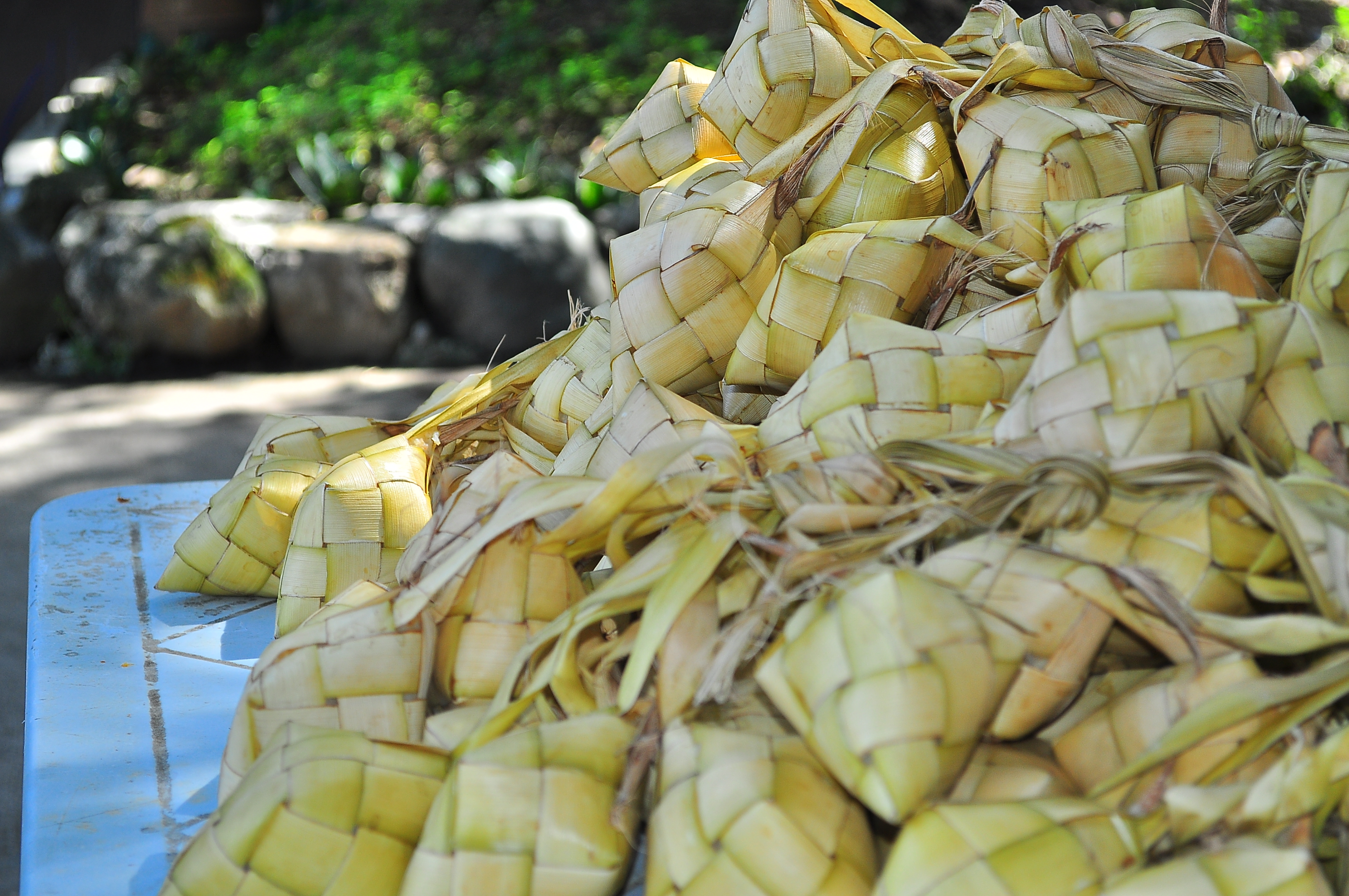 When you come to Cebu, you will see this kind of weaving. We call it "Puso" or best known in our english term as Hanging Rice. The term hanging comes up as the vendors hang this in their store. The woven leaves are actually young coconut leaves formed into like a diamond shape, leave an opening at the top for the rice to fill in. The rice is filled up to the middle portion only so to allow space for the rice when cooked. They have a big pot of boiling water, they put that till cooked. They hang it dry and then ready for delivery to smaller store at the side road. Because Filipinos loved to eat rice, you can easily buy this Hanging Rice and paired with any food you like. When you come here, you just say you want to eat Hanging Rice or Puso.